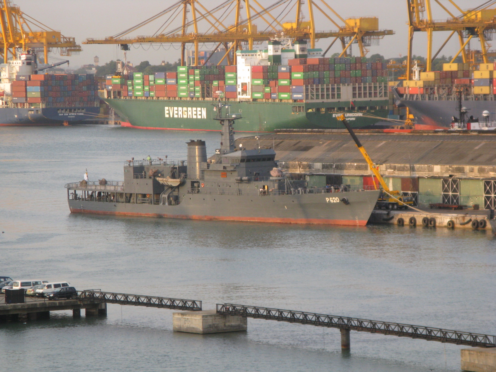 Offshore Patrol Vessel SLNS Sayura (P 620) - Sri Lanka Navy